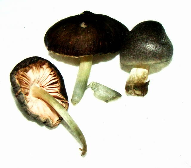 Pluteus americanus For more information about this, see the observation page at Mushroom Observer.